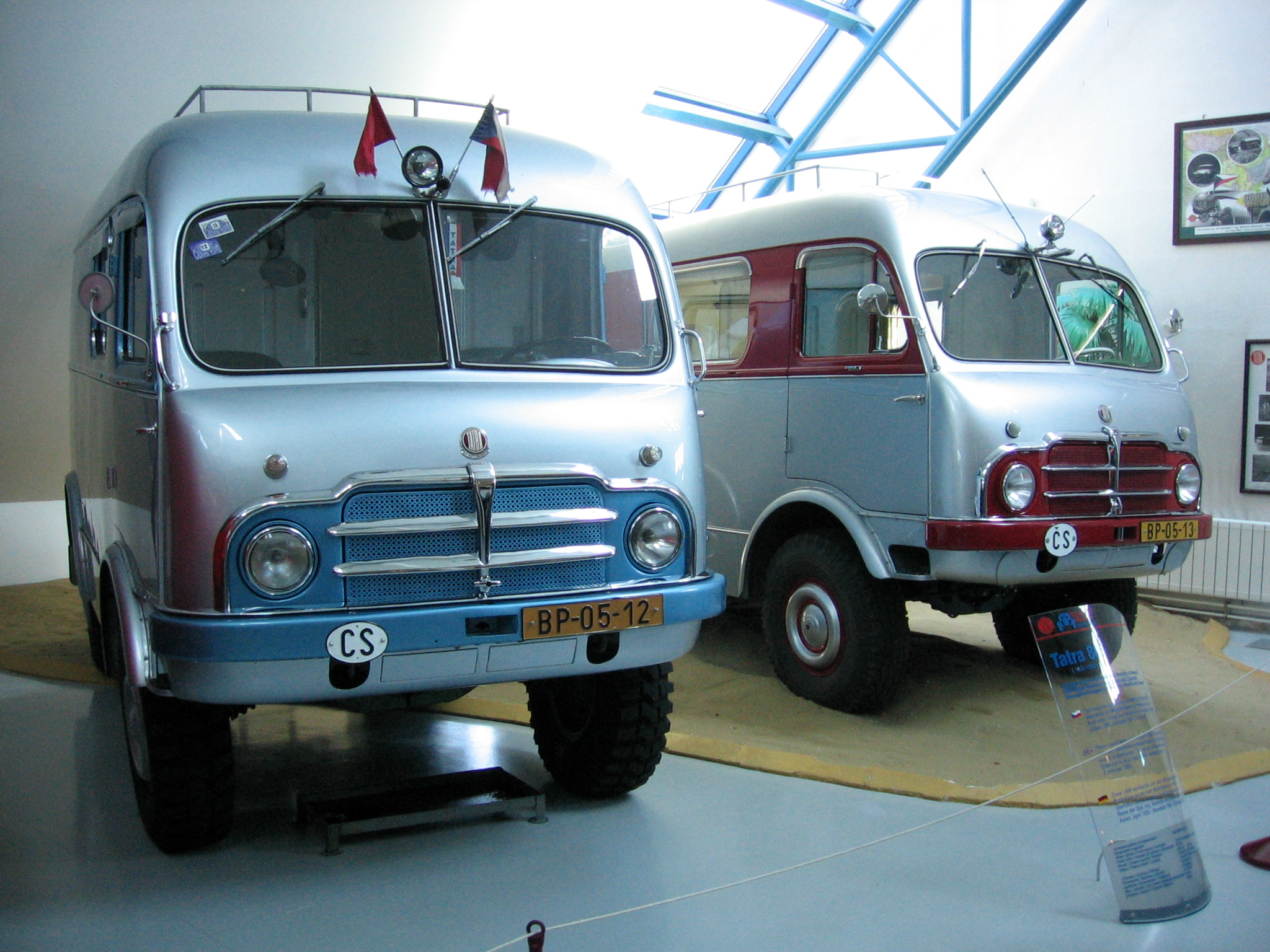 Off-road vans Tatra 805 for Hanzelka and Zikmund (well-known Czech travellers)